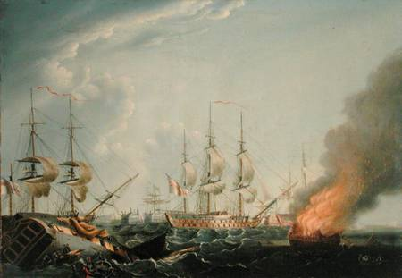 Morning after the battle of the Nile